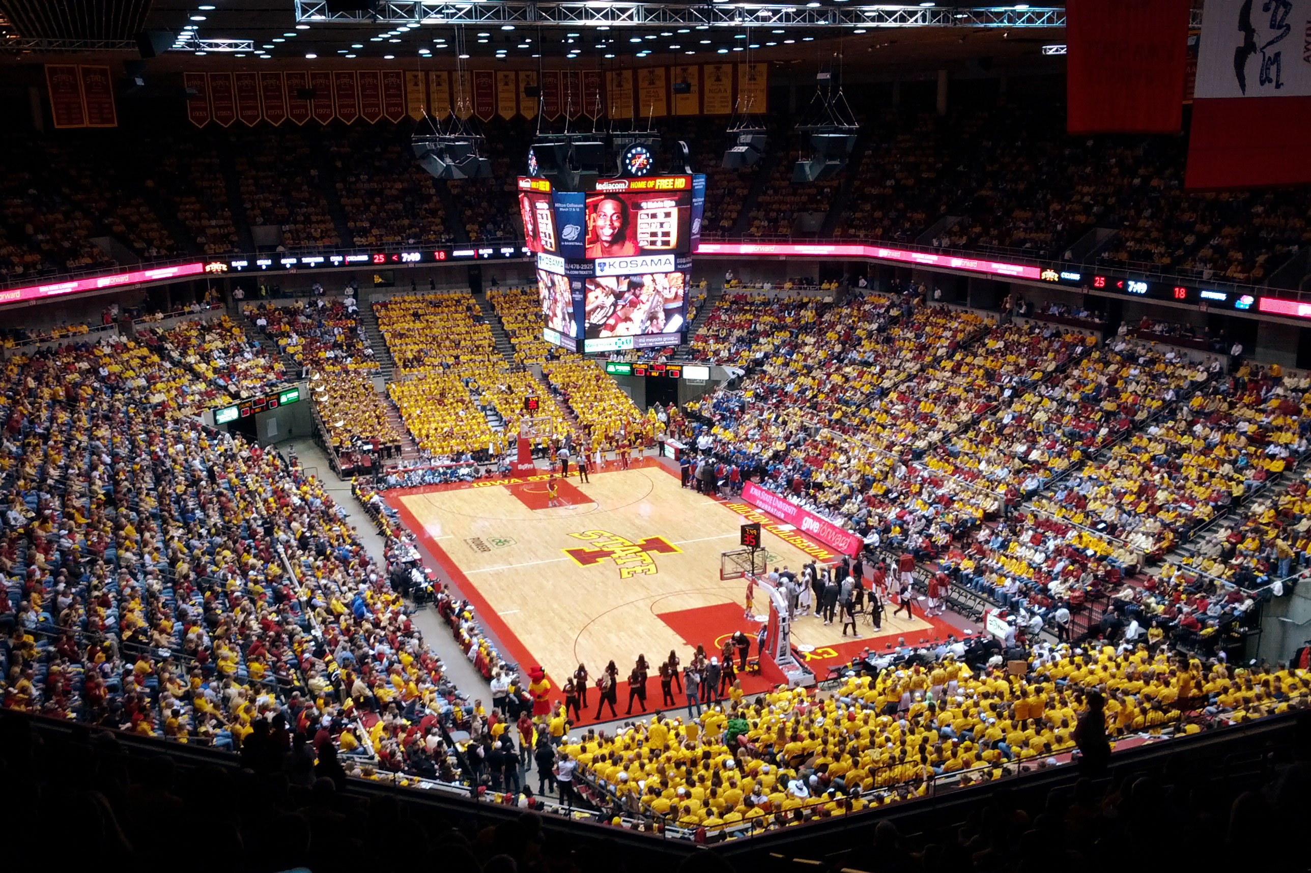 Iowa State Cyclones beat Kansas 72-64 01-28-12